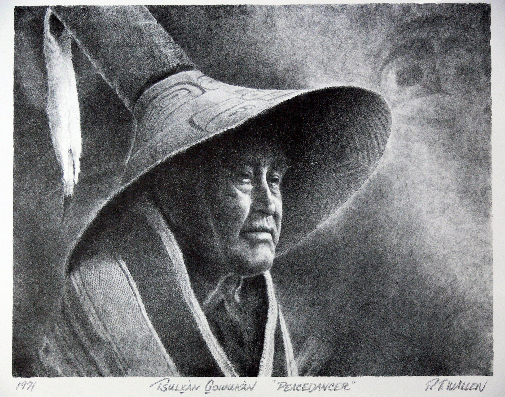 Peacedancer stone lithograph by R.T. Wallen, a portrait of the artist's adopted Tlingit father.